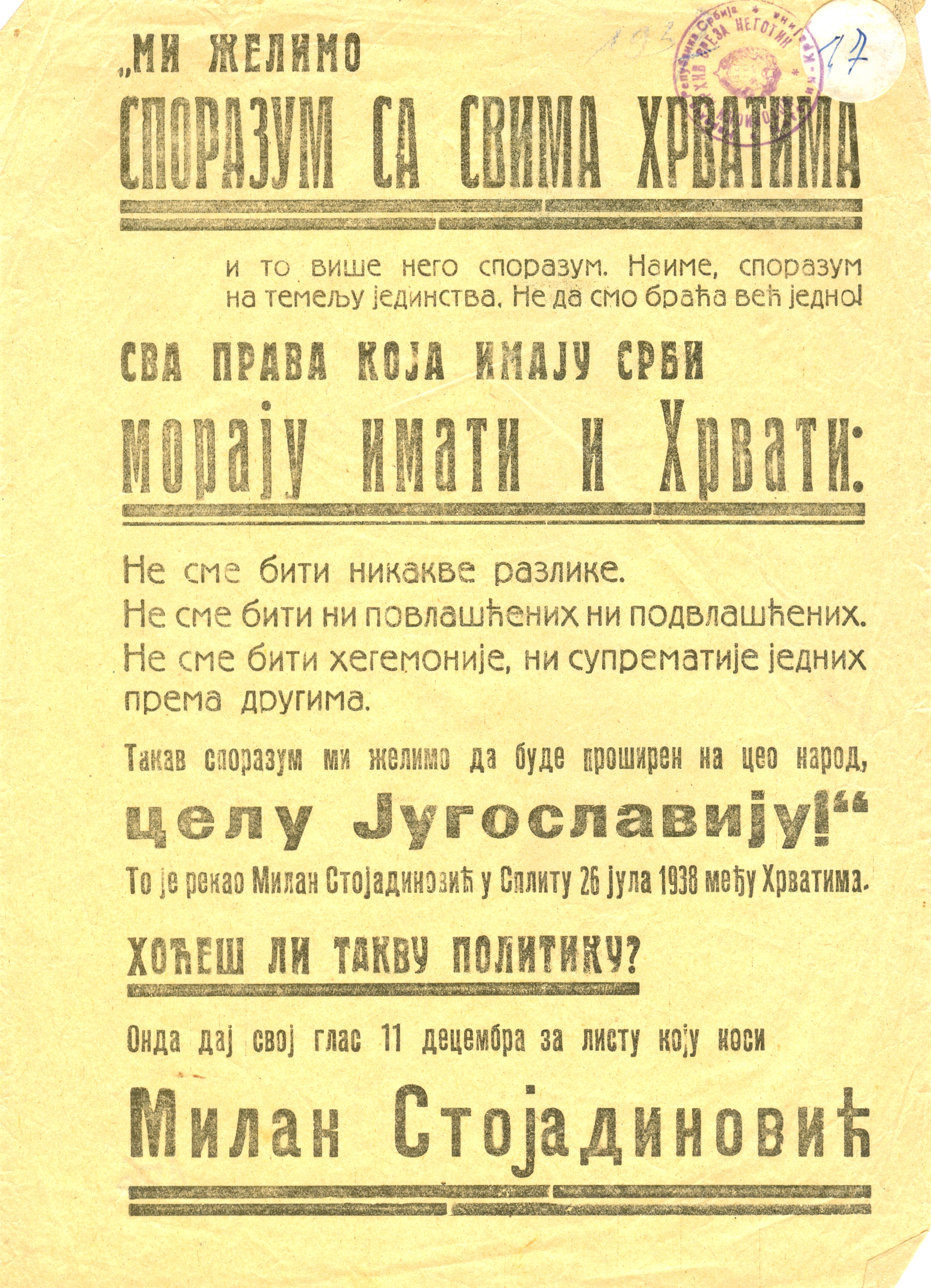 Milan Stojadinovic's poster for the 1938 elections Srpski (latinica): Predizborni poster Milana Stojadinovića za izbore 11.decembra 1938.